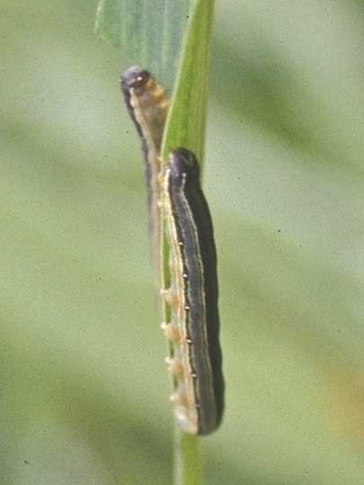 African armyworms during an outbreak in Kilosa District, Tanzania